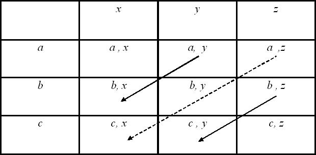 Graphical representation of the double cancellation axiom of the theory of conjoint measurement.